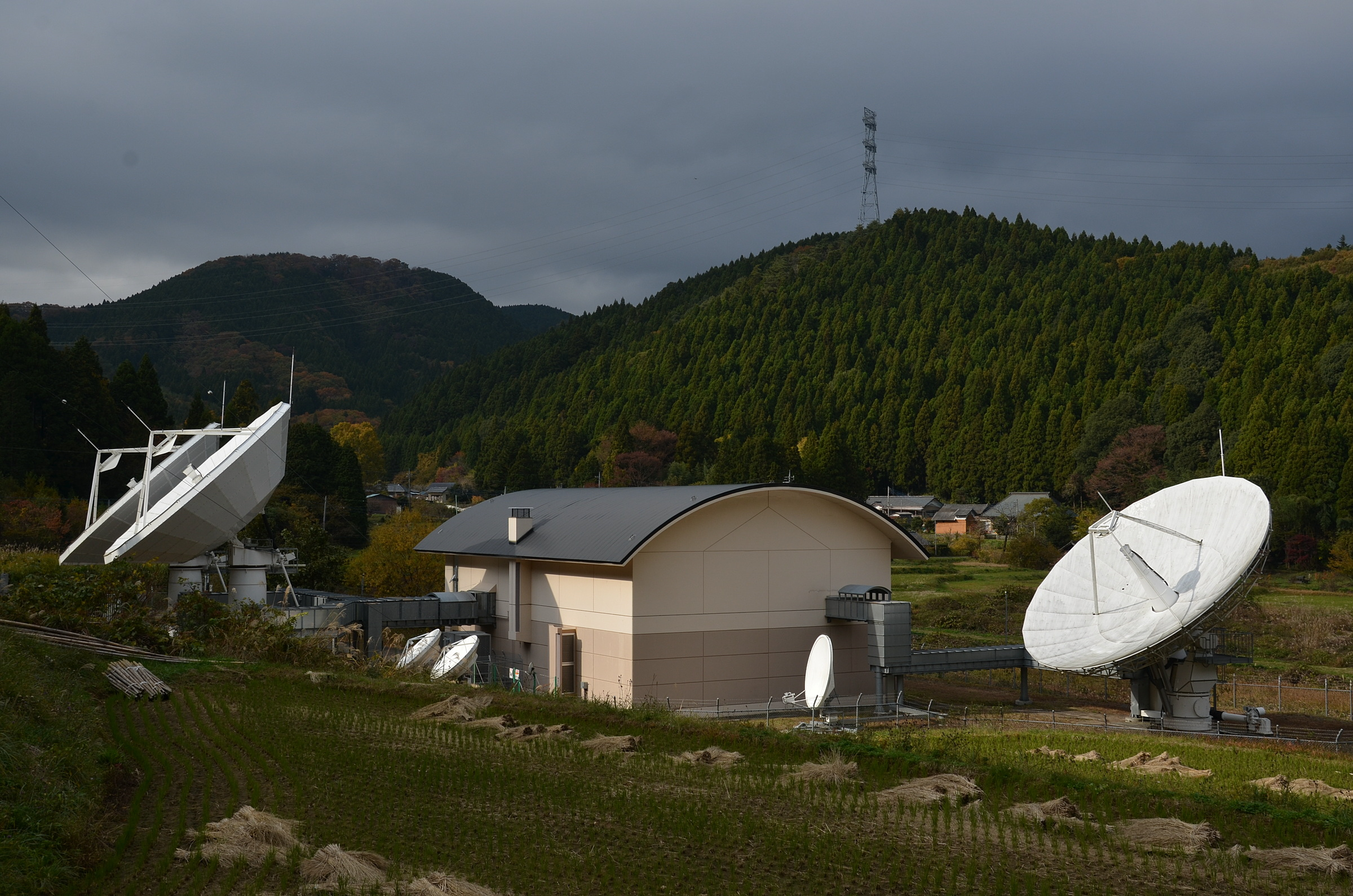 Yojikata Satellite Earth Station, NTT DOCOMO, Inc. (Kita-Ibaraki city, Ibaraki prefecture, Japan)